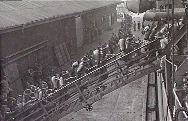 Troops from the 2/28th Australian Infantry Battalion, 2nd AIF, board a troopship in Cairns in August 1943, prior to them taking part in the assault on Lae.